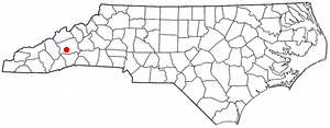 Category:North Carolina Dot Maps